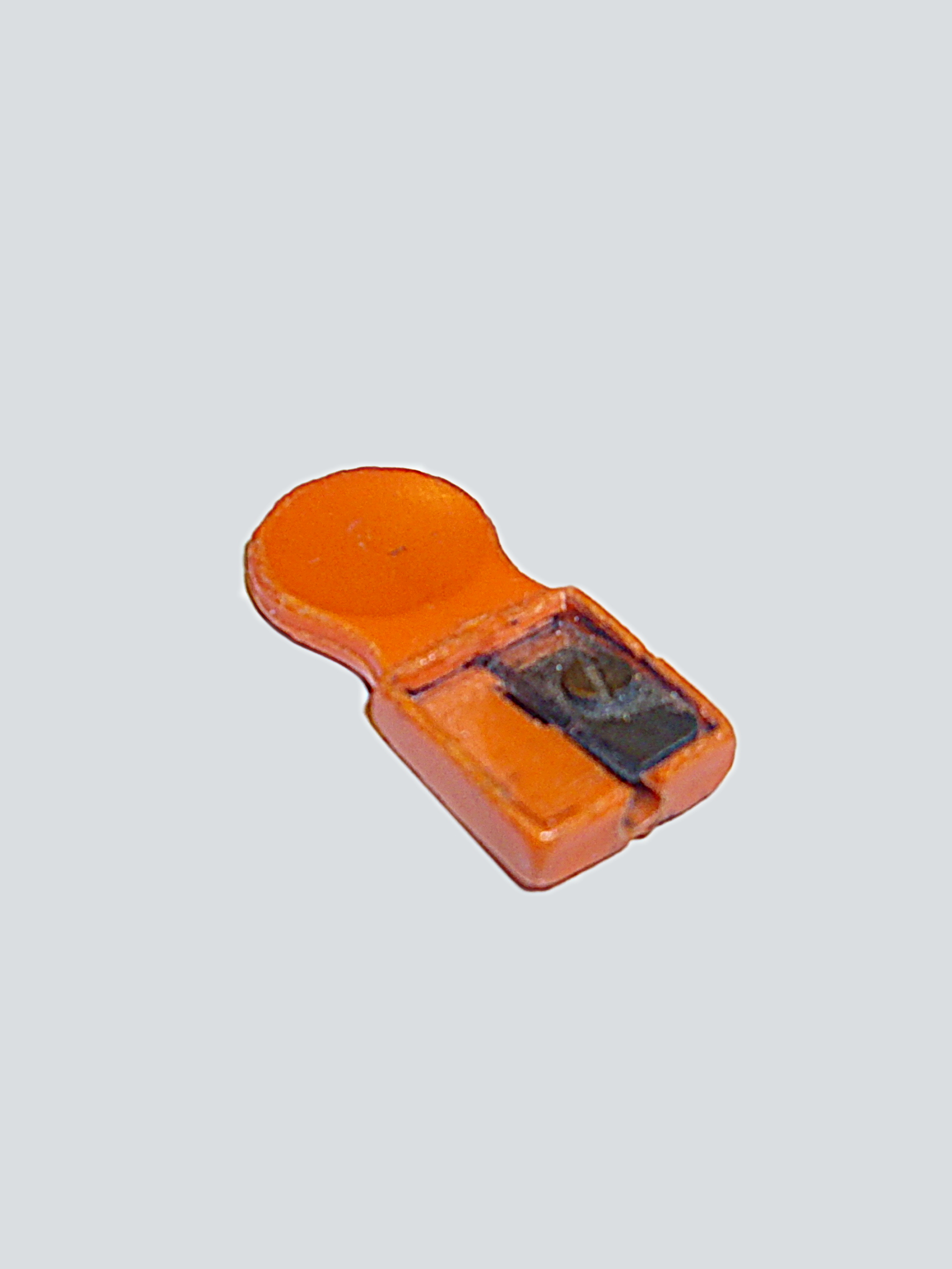 Pencil sharpener for mechanical pencil leads